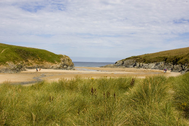 Porth Joke. Porth Joke is half a kilometre from Pentire head.